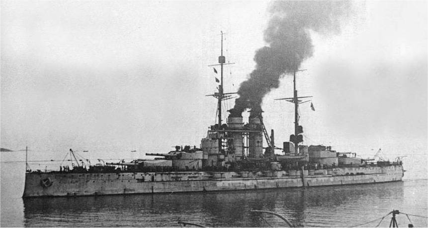 SMS Szent Istvan. Sunk 10th June 1918 while attempting to break the Otranto Barrage.